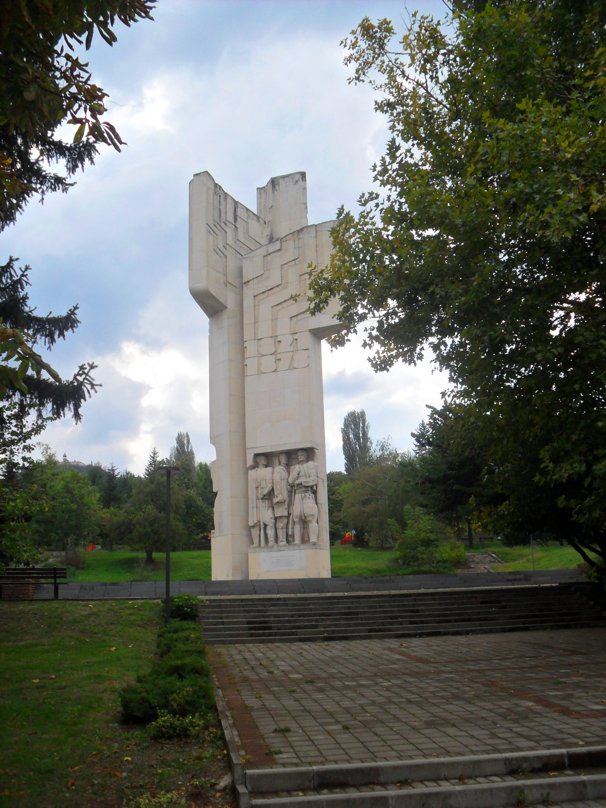 Monument